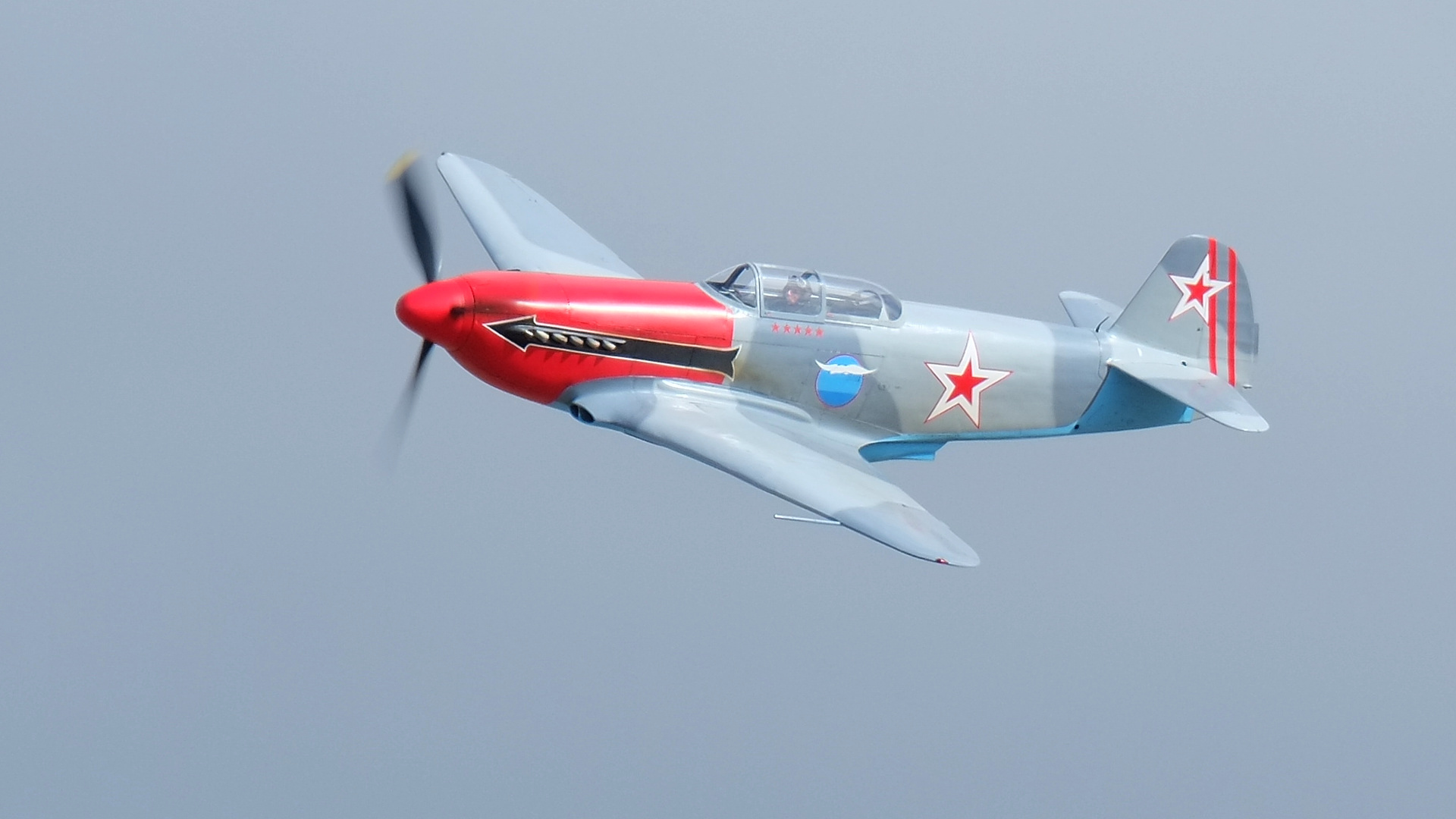 Yakovlev Yak-3 in front of overcast sky